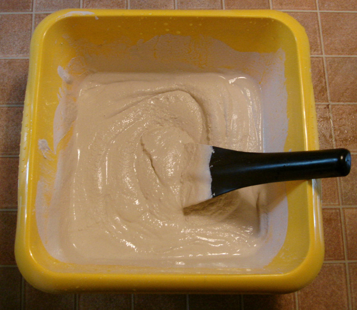 Plaster mixed with water in a plastic container